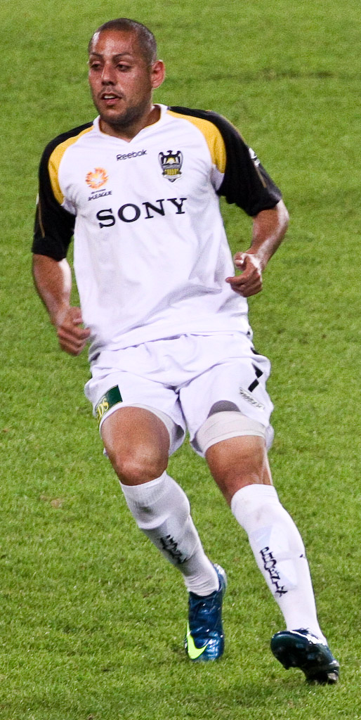 Leo Bertos playing for Wellington Phoenix against Sydney FC in round 11 of the 08/09 A-League.